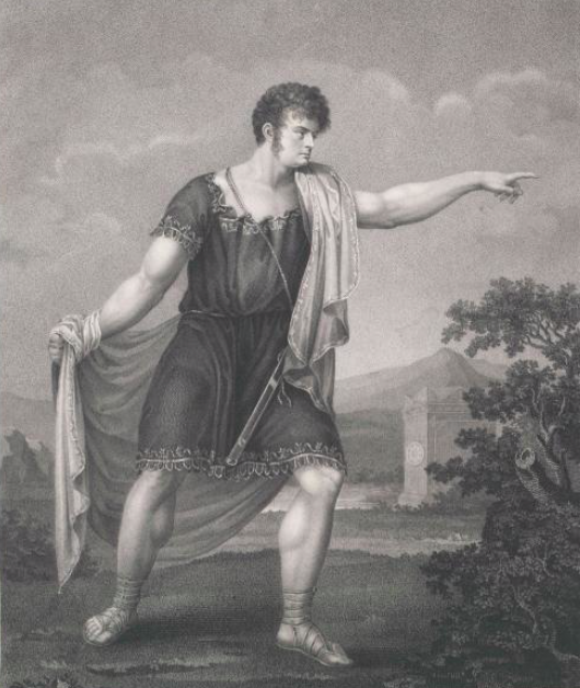 Giuseppe Siboni